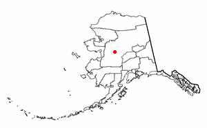 Adapted from Wikipedia's AK borough maps by Seth Ilys.